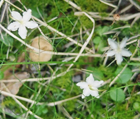 Fairy bells (Disporum trachycarpum) are fairly common flowers, blooming from late May to mid June. Their drooping white flowers are initially bell-shaped, but then open and take on a wilted appearance. They produce large red-orange berries, sweet to the taste but with large seeds. Ø2004 D. Windrim Captioned As { }